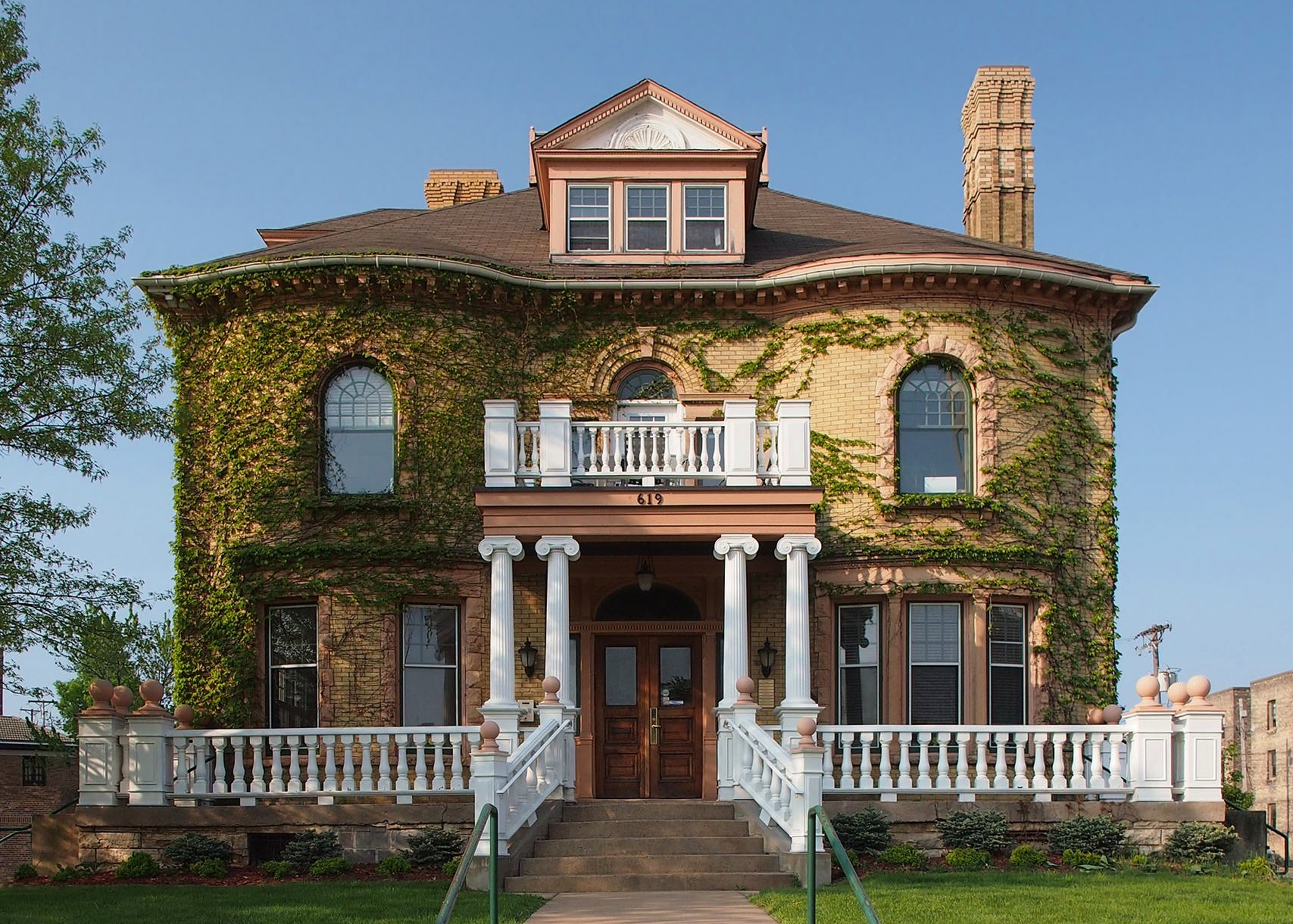 Hinkle-Murphy House, 619 10th St S, Minneapolis, Minnesota, USA. Viewed from the northeast.